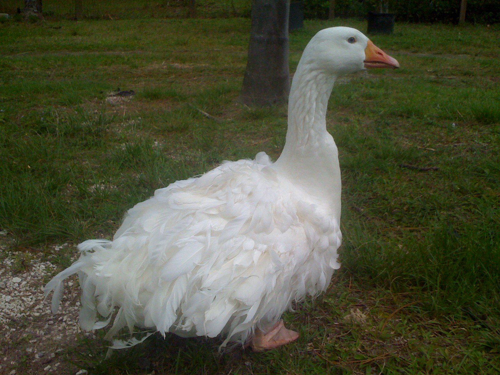 The rare Sebastopol domestic goose is unique in that it has long, curly feathers.